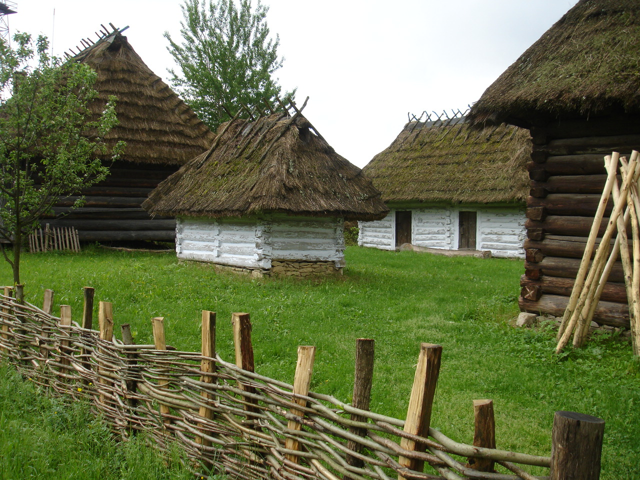 Huts from Rożnowice, 1858, moved to Sanok-Skansen